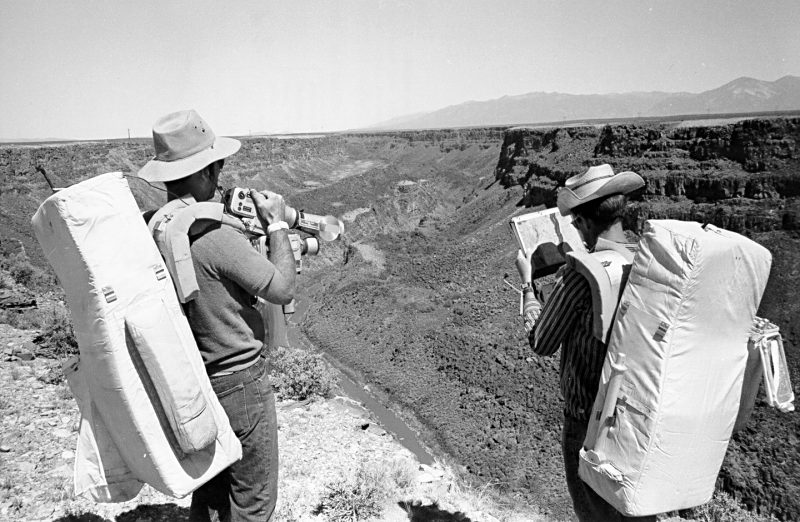 Astronauts John Young and Charles Duke participate in geology training at the Rio Grande Gorge near Taos, New Mexico in September 1971.